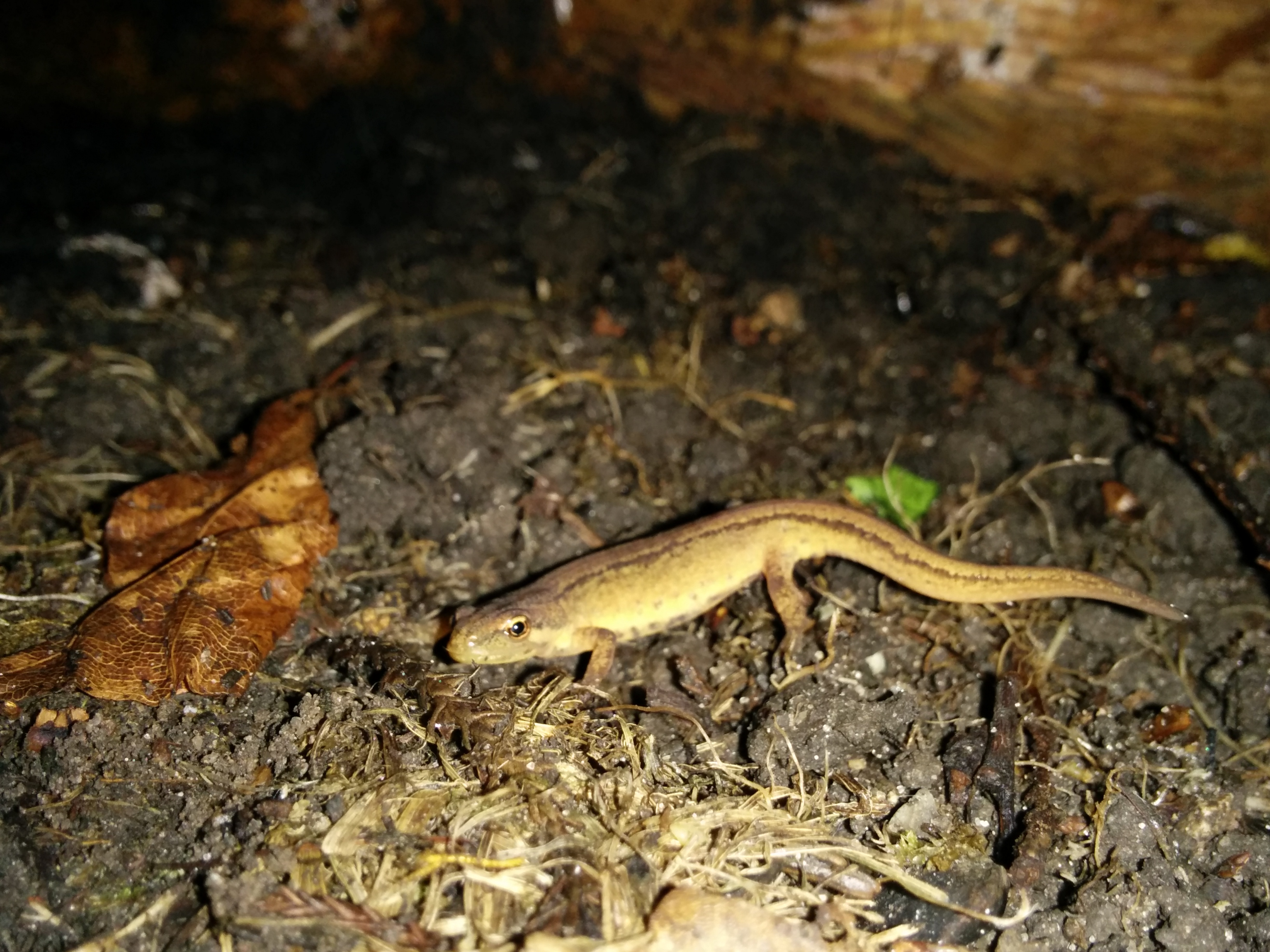 Lissotriton vulgaris (Linnaeus, 1758), Smooth Newt, Søborg, Denmark, 10 September 2014